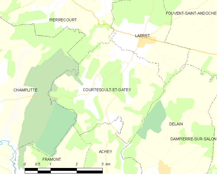 Map of French municipality